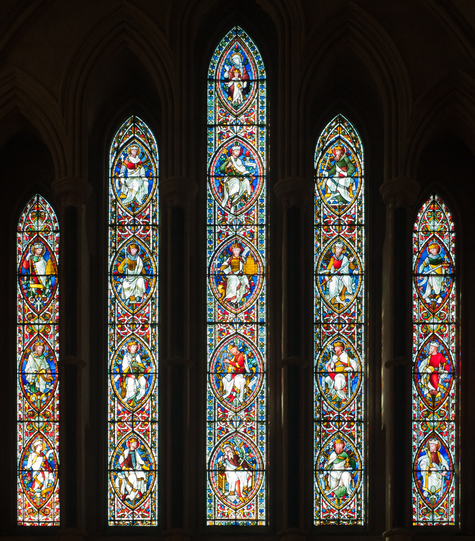 Stained glass of the west window in the nave, depicting the Tree of Jesse. Cartooned by John Hardman Powell (1827–1895), executed by Hardman & Co.